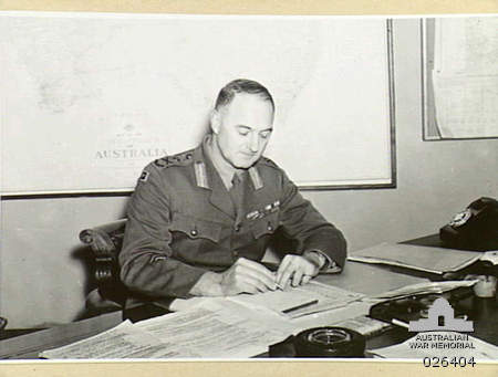 MELBOURNE, VIC. 1942-08. MAJOR-GENERAL L.E. BEAVIS, CBE, DSO, MASTER-GENERAL OF THE ORDNANCE, AT HIS DESK AT WESLEY COLLEGE.